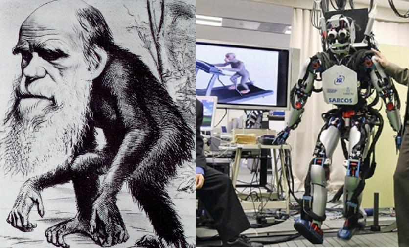 Compare creationist drawing of human head on ape body, to monkey brain controlling robot body